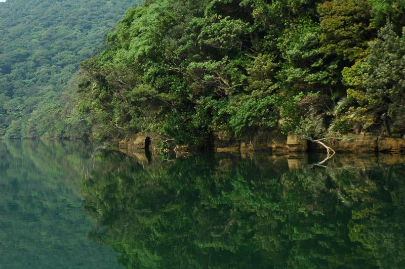 Urauchi River, Iriomote, Japan.